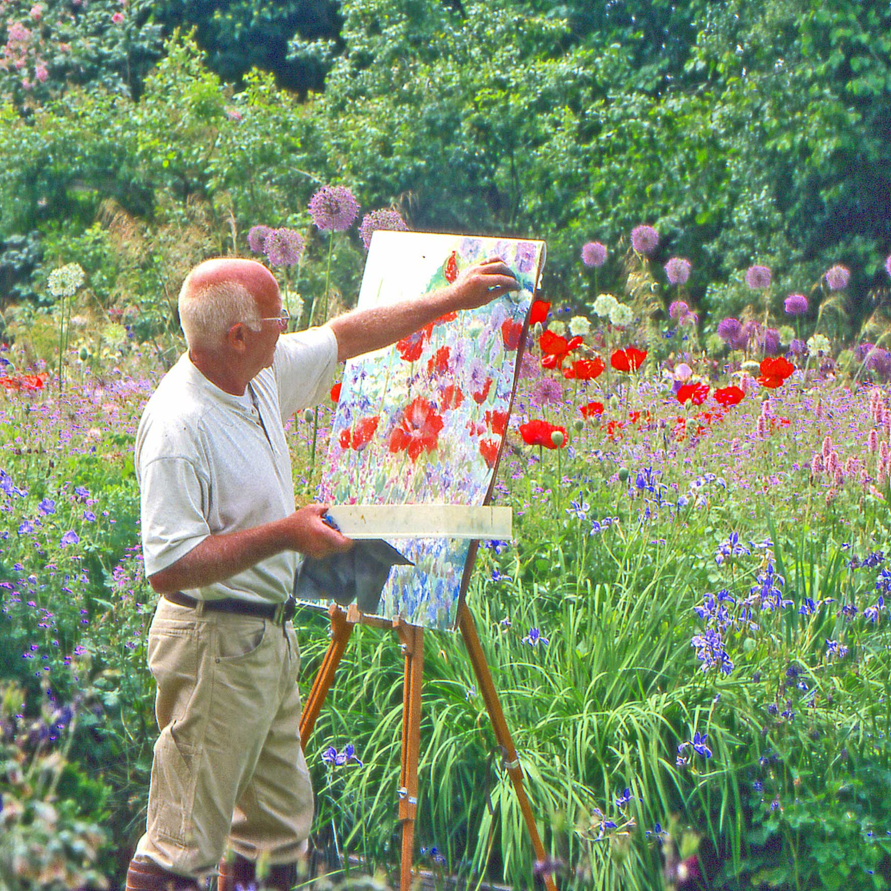 Artist Ton ter Linden painting in the Spring Garden